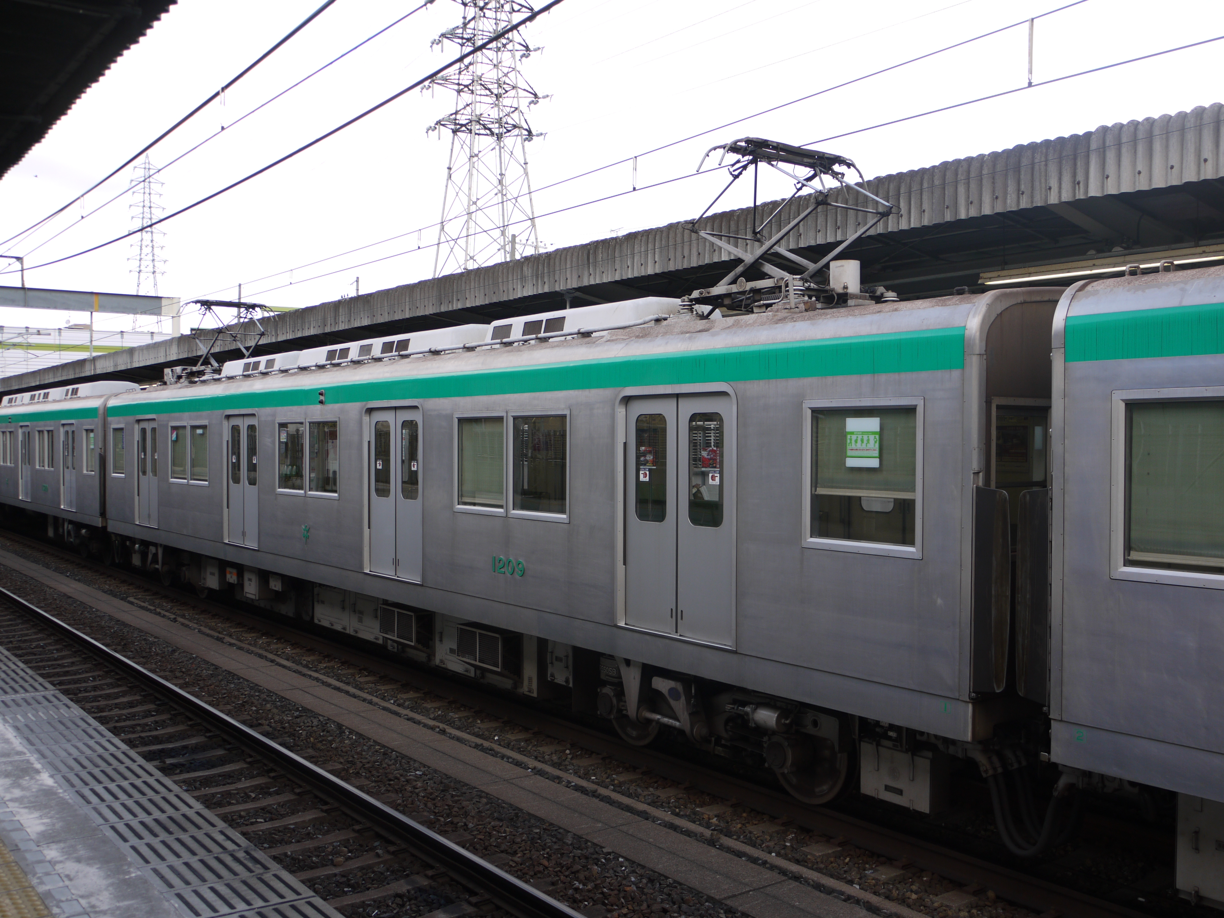 Kyoto subway 1209 belongs to 10 series